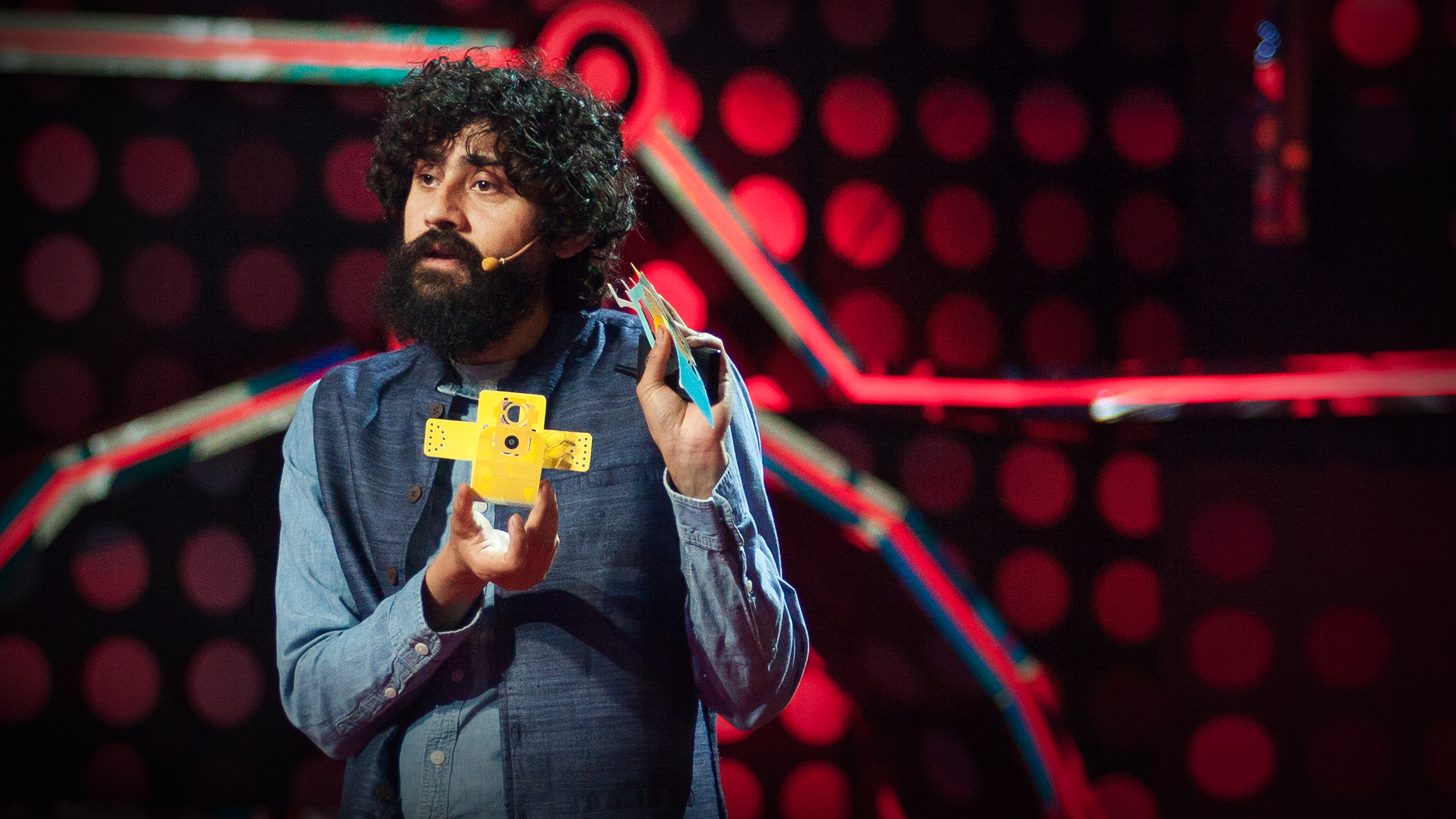 TED Talks India: Nayi Soch (New Thinking), video recorded August 18-28, 2017, Mumbai, India. Photo: Amit Madheshiya / TED